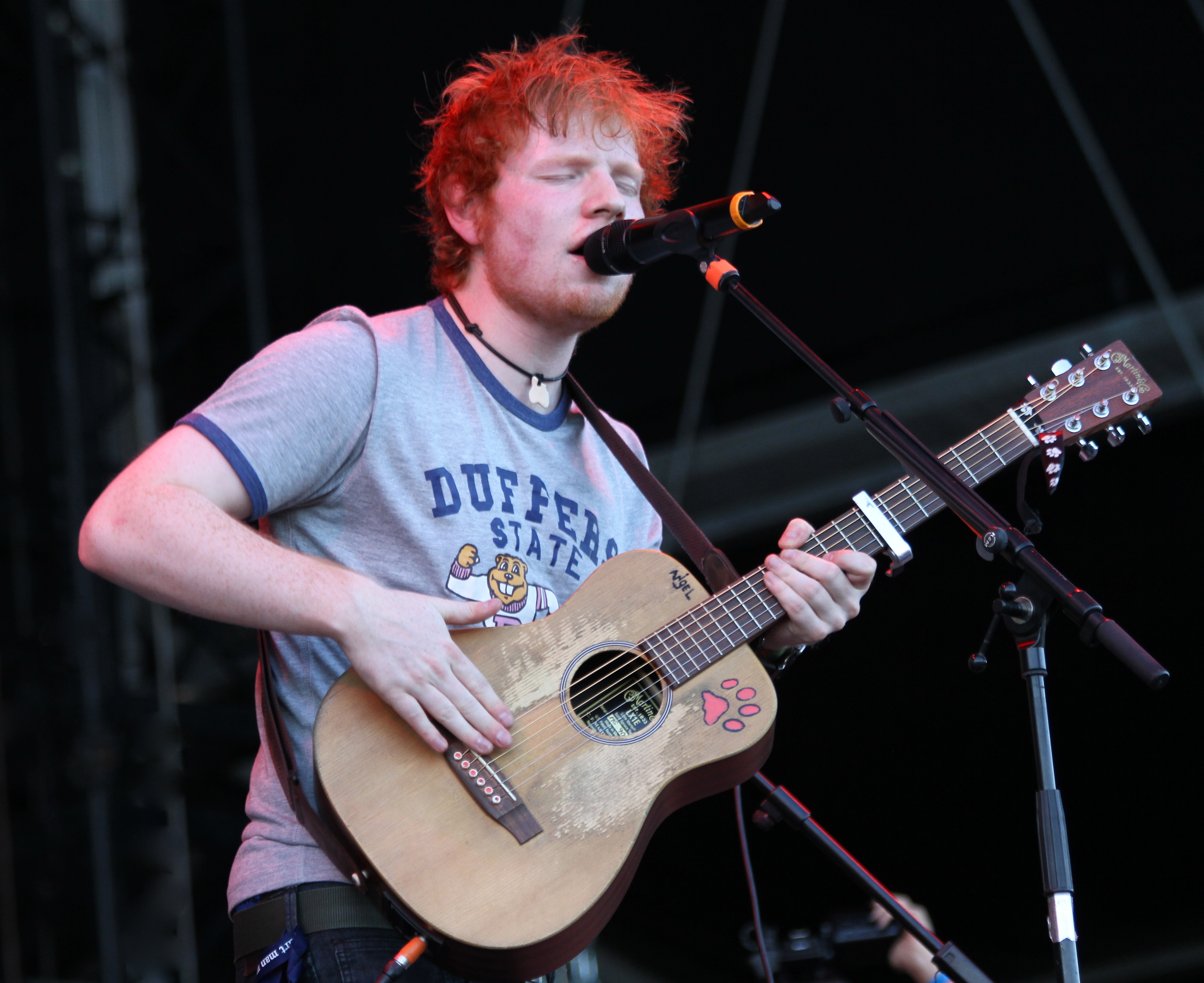 Posted via email from Globalite Magazine